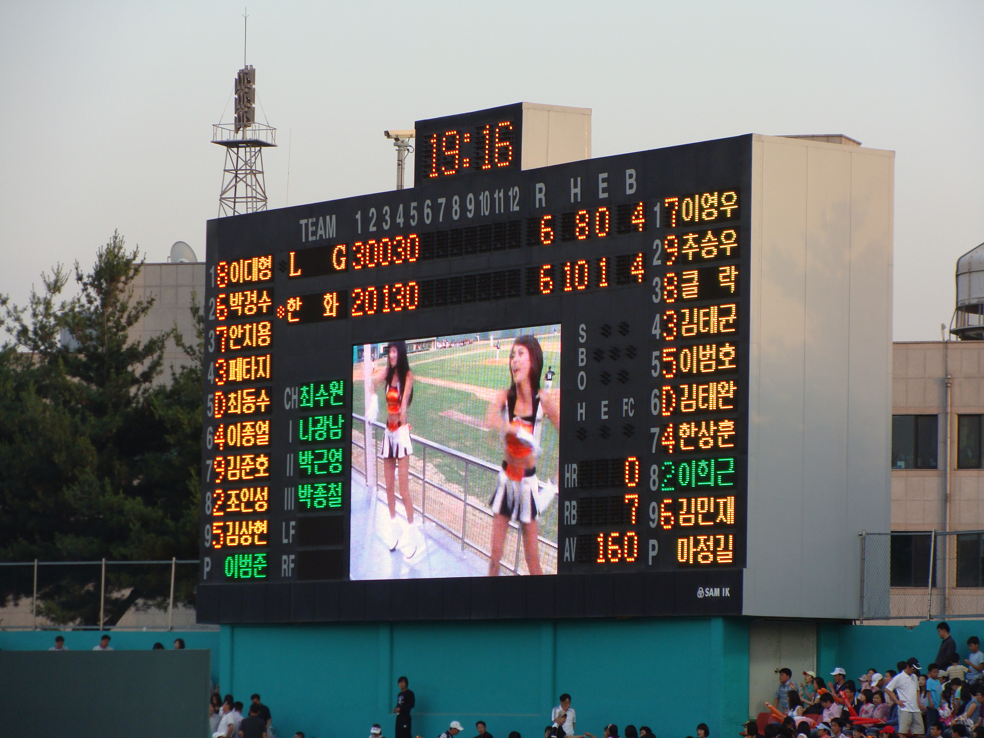 A Scoreboard of Cheongju Ball Park during a game between Hanwha Eagles and LG Twins